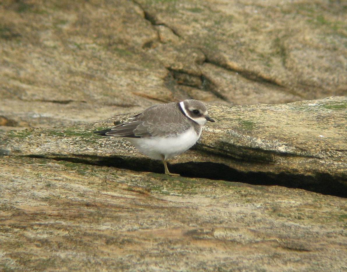 Charadrius hiaticula juvenile - photo MPF St Mary's Island, Northumberland, UK; 31 August 2005